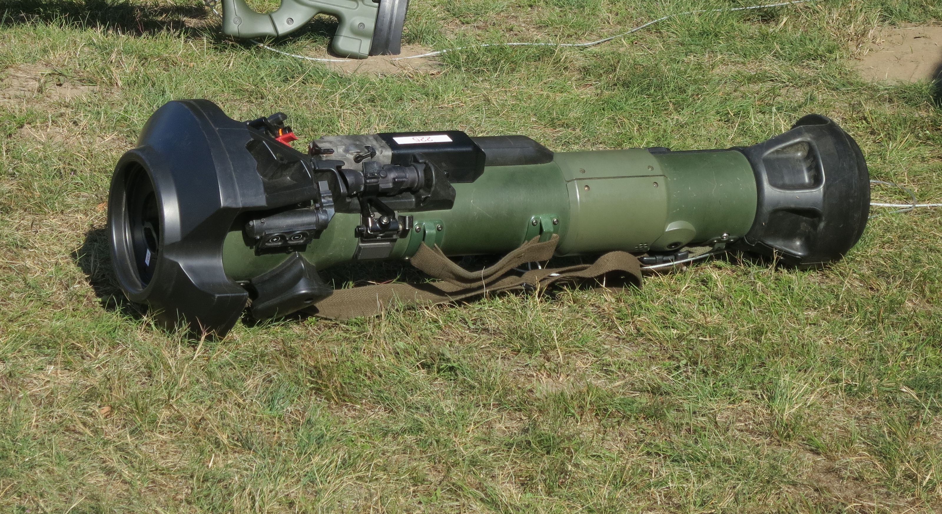 Bofors anti-tank missile MTB LAW